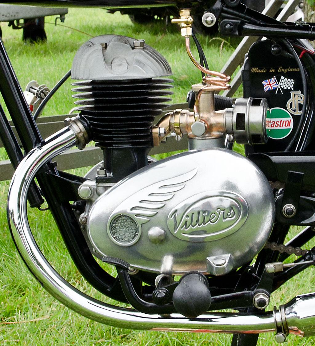 Fitted to a Francis Barnett. Villiers D series engines : 122cc (50x62mm) The 10D was intoroduced in 1949.